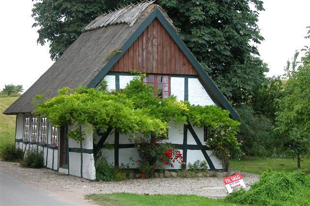 Viby, Fyn